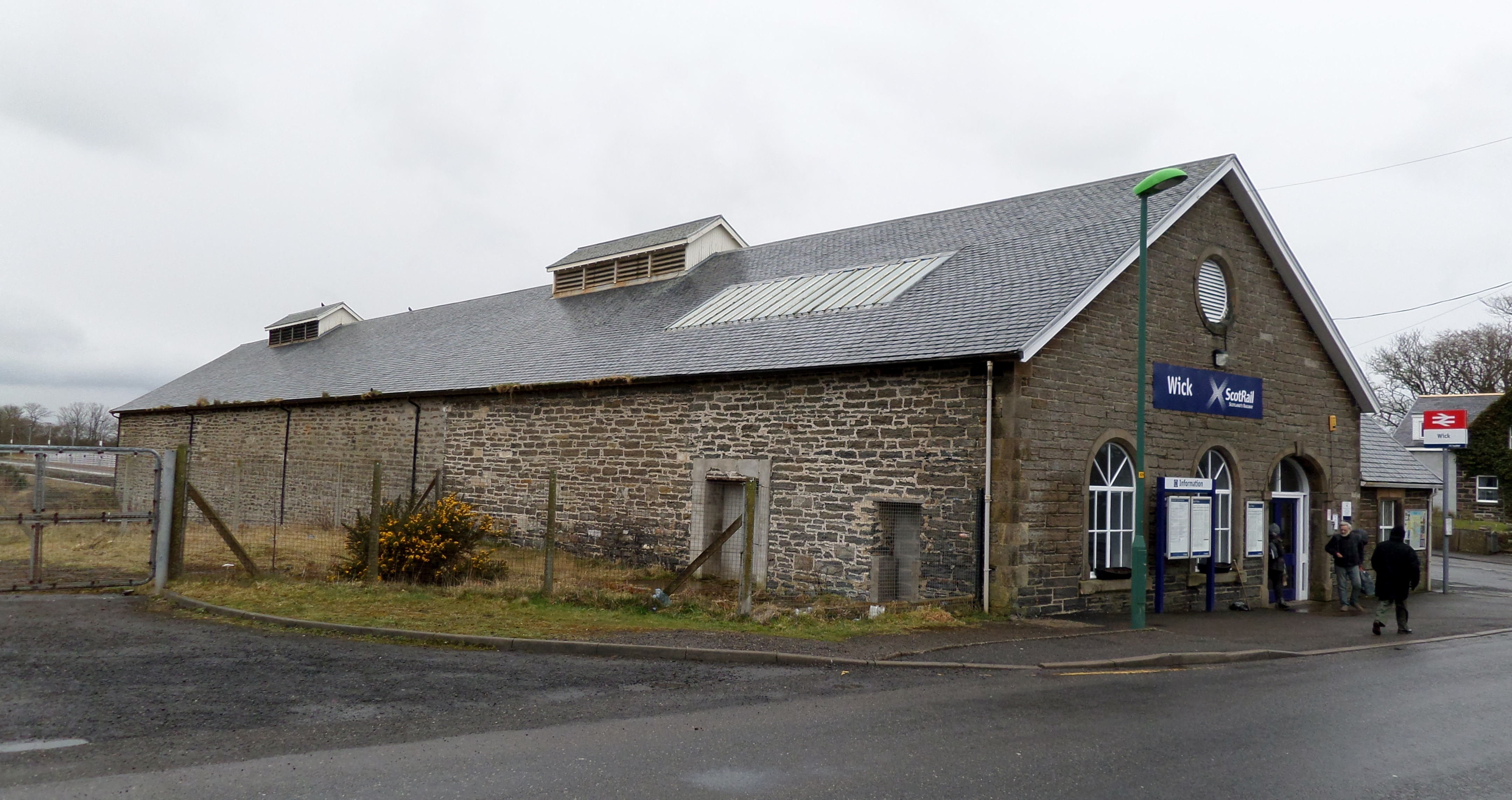 The railway station at Wick, Caithness, Scotland.